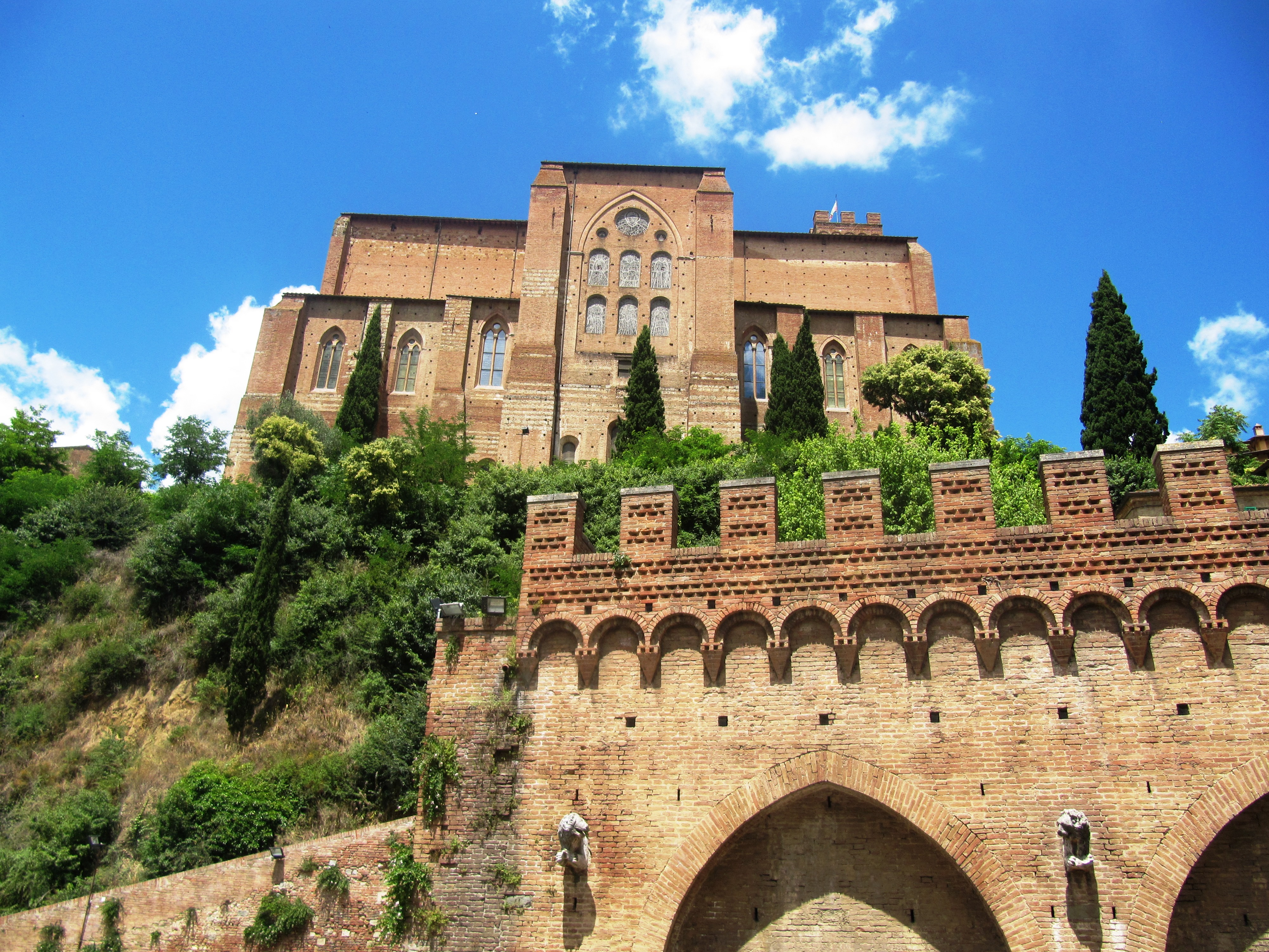 Siena, Tuscany, Italy.